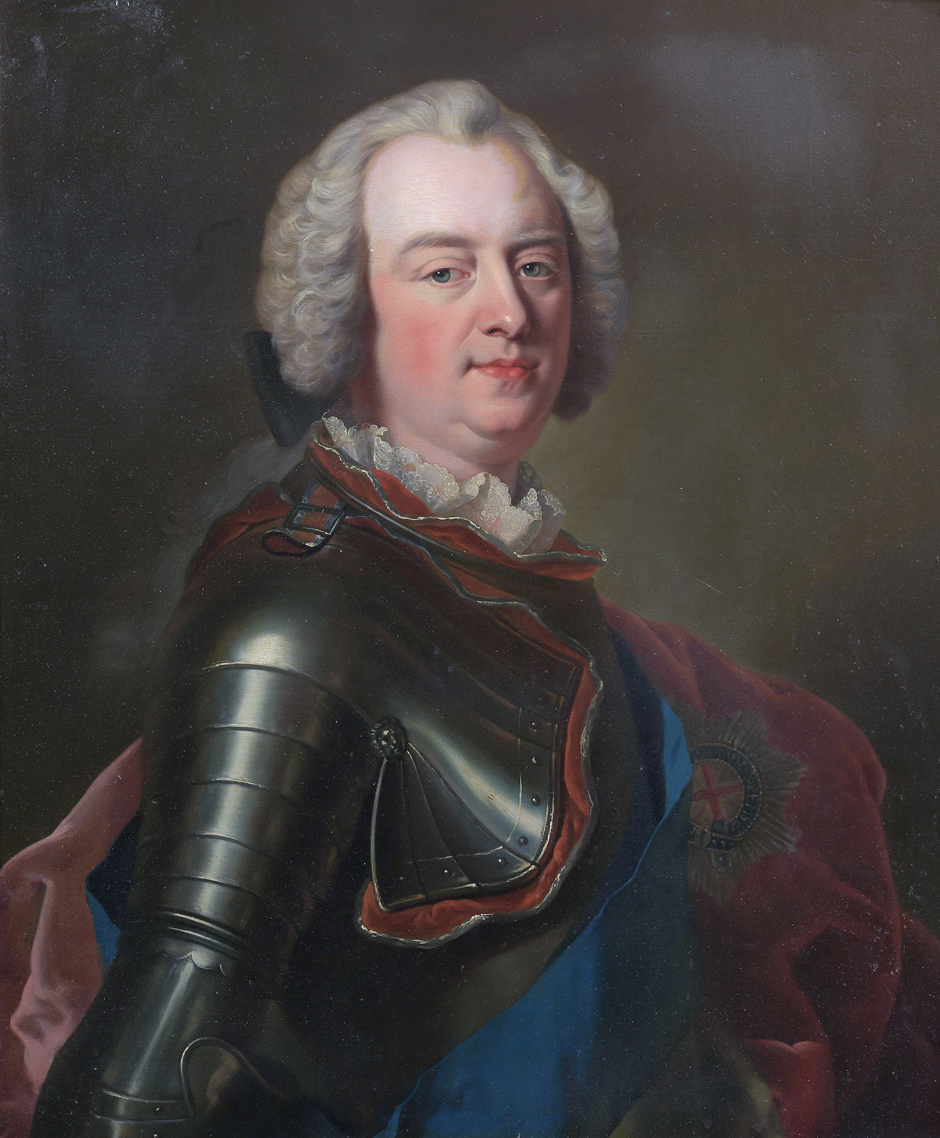 Portrait of Charles Lennox, 2nd Duke of Richmond (1701-1750)